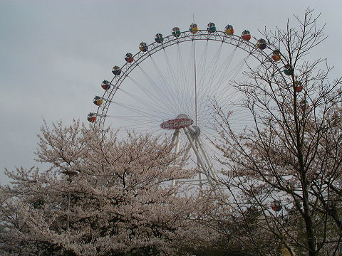 Ferris wheel in Mukogaoka Yuen (Mukogaoka amusement park).Place: Mukogaoka Yuen, Tama Kawasaki Kanagawa, Japan. Comment: Mukogaoka Yuen was called "The park of flowers and green", there was colored by cherry blossom in every spring.